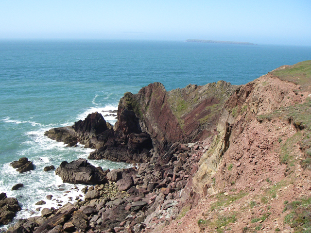 Cliff View. Little Castle Point on the Dale peninsula. The island on the horizon is Skokholm Island.